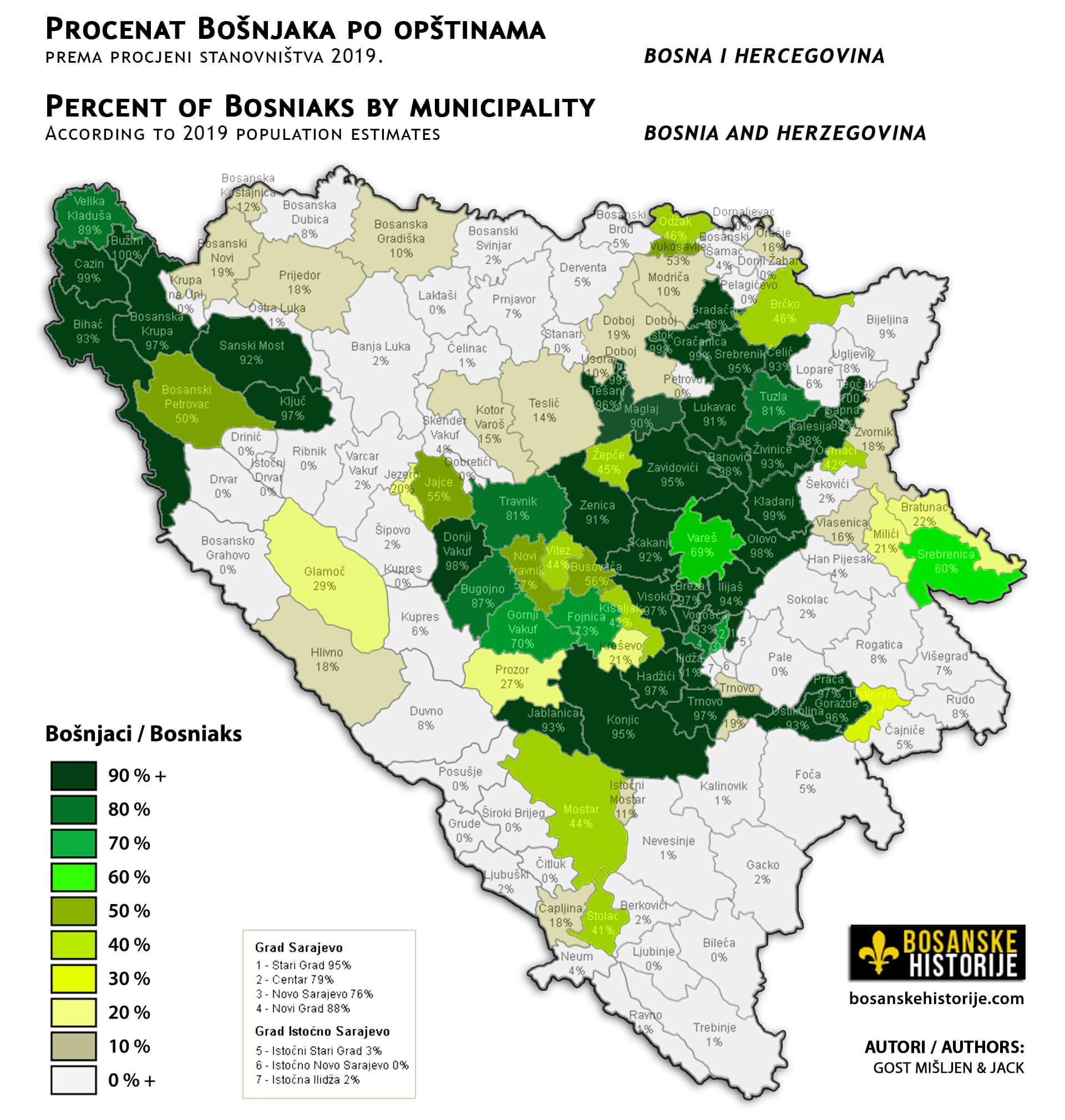 Bosnia and Herzegovina demographics: Ethnic composition according to 2019 population estimates. Percent of Bosniaks by municipality.